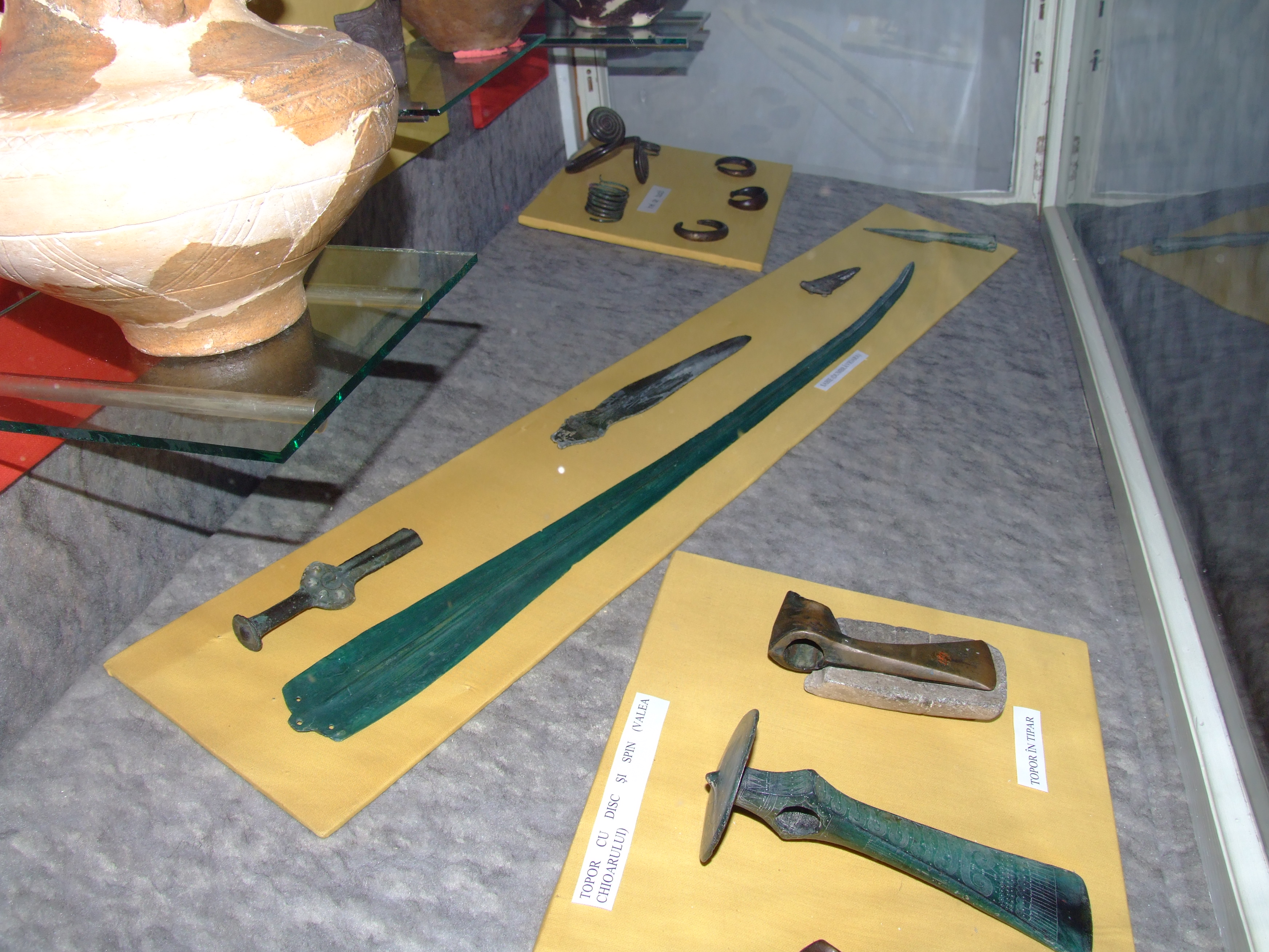 On the left, Mycenaean bronze sword found at Dumbrăvioara, Mureş County, Romania. On the bottom right, Wietenberg culture battle axes found at Valea Chioarului, Maramureş County, Romania. The image also includes pottery (top left) and fibulae (top middle). In display at the National Museum of Transylvanian History, Cluj-Napoca.